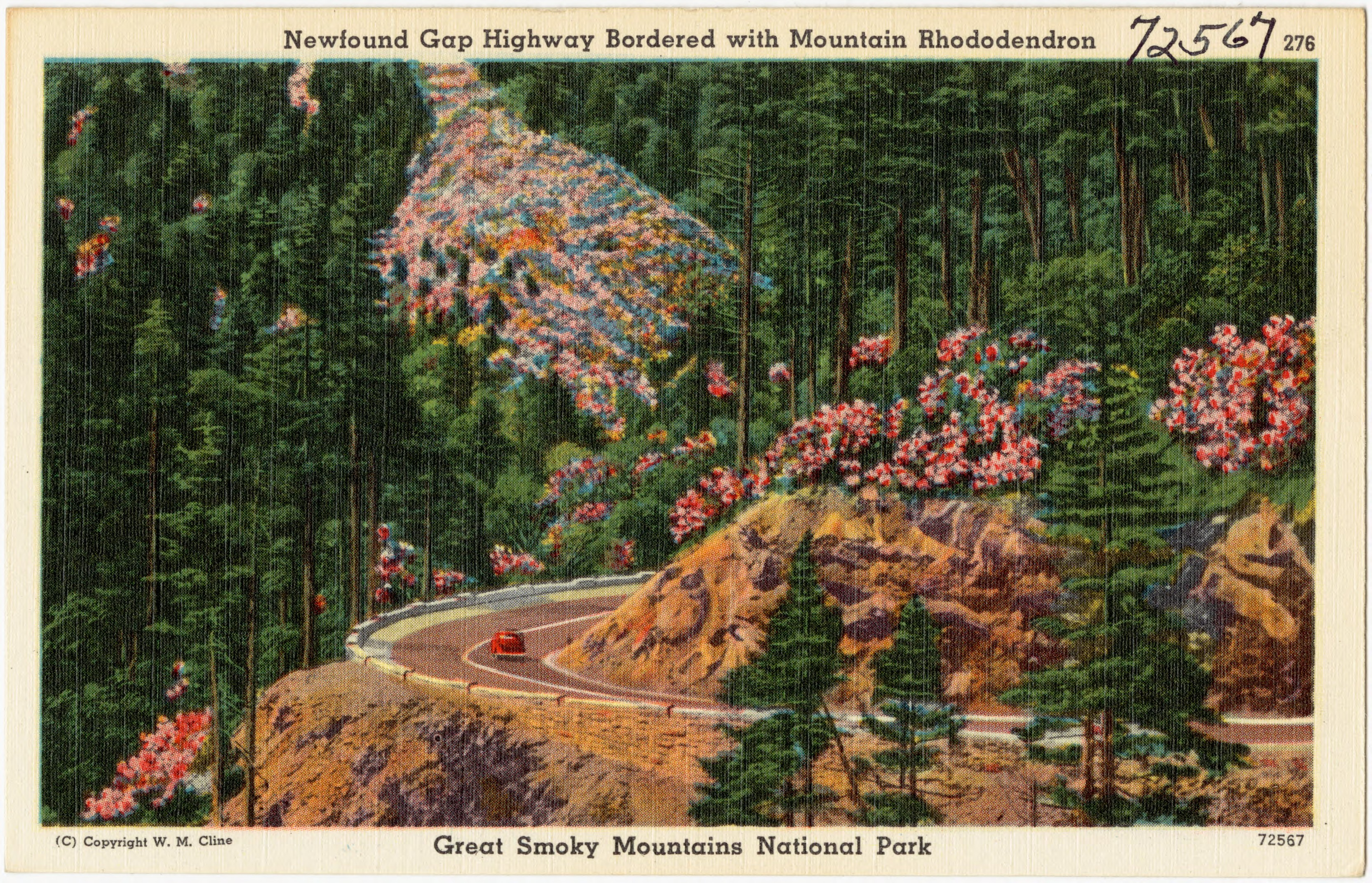 Title: Newfound Gap Highway bordered with Mountain Rhododendron, Great Smoky Mountains National Park Subjects: Roads Places: Great Smoky Mountains Notes: Title from item. Extent: 1 print (postcard) : linen texture, color ; 3 1/2 x 5 1/2 in. Accession #: 06_10_019468